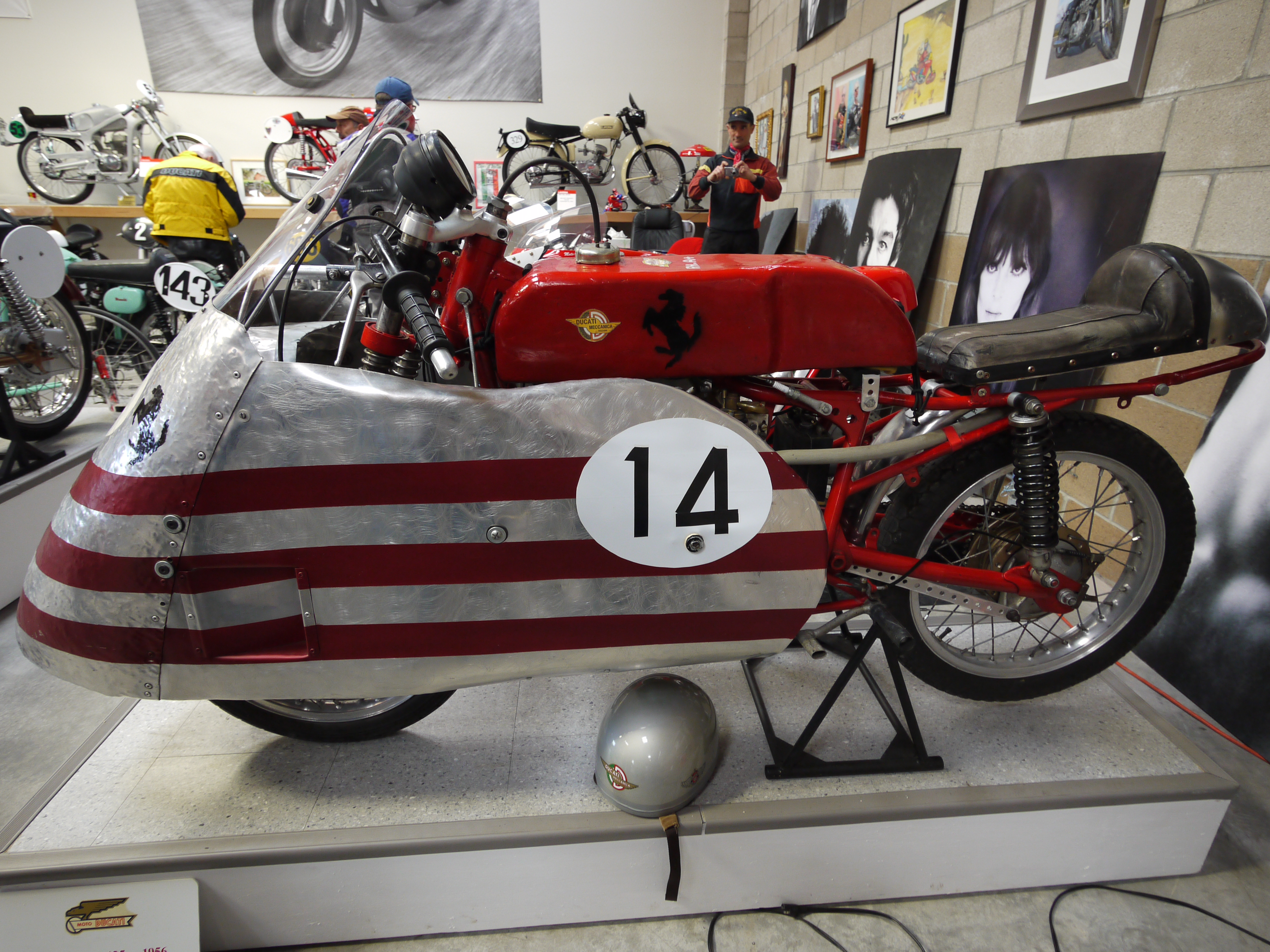 Ducati 125 GS, 1956